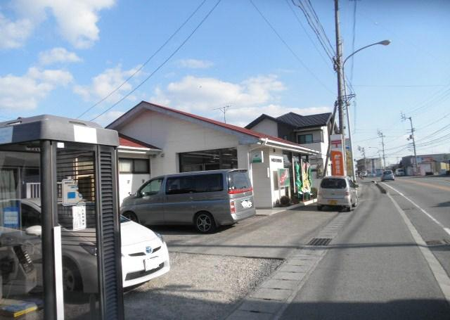 Komatsushima Yokosu postoffice